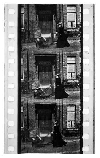 Frames from Incident at Clovelly Cottage, 1895. Filmed at Clovelly Cottage, 19 Park Road, Chipping Barnet.